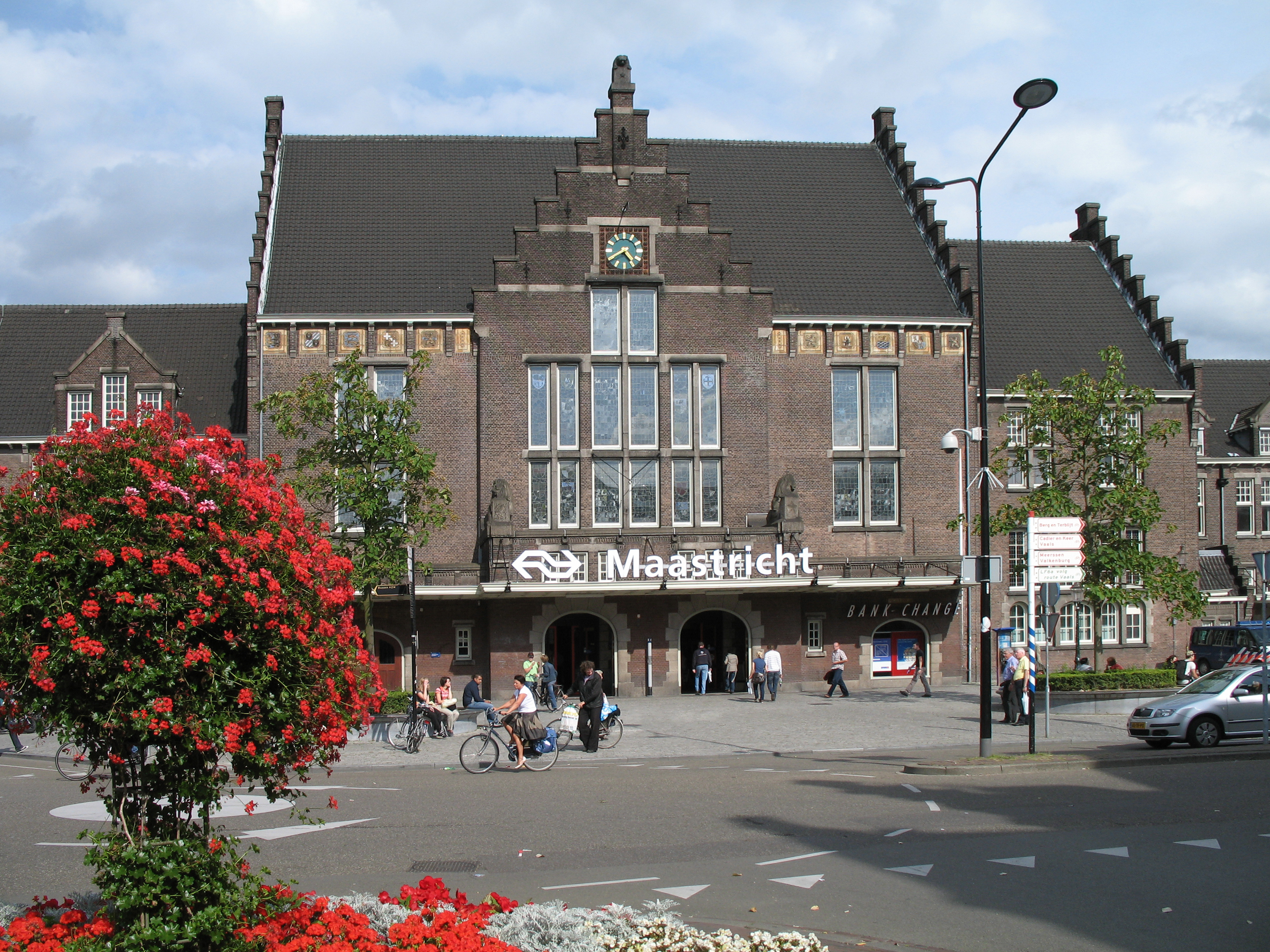 Maastricht (the Netherlands): the railway station